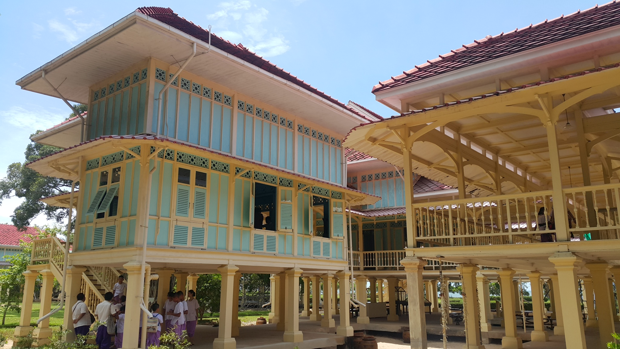 The buildings in Mrigadayavan Palace in Phetchaburi, Thailand